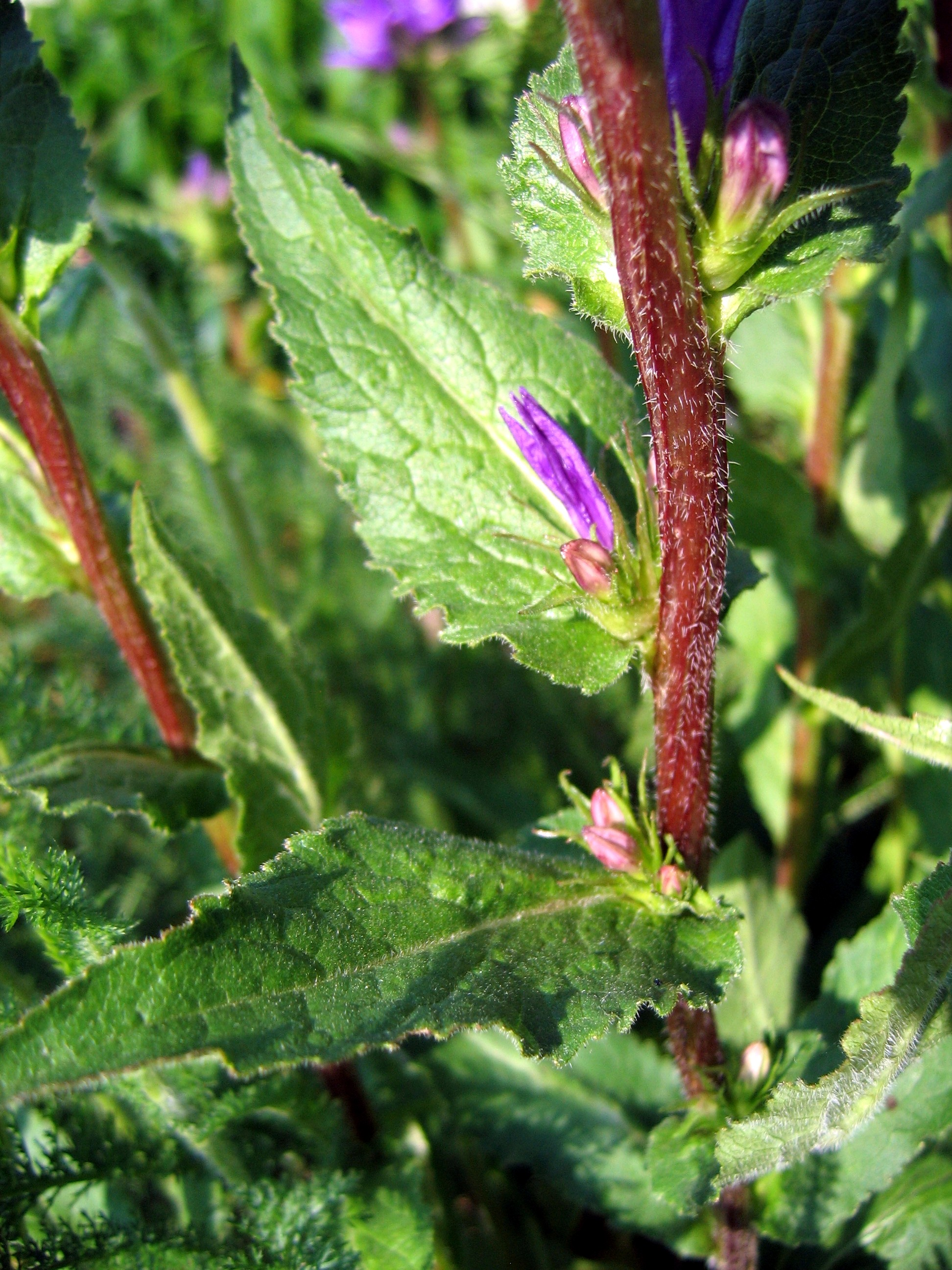 Dane's blood (Campanula glomerata) stem, plant cultivated, Wrocław, Poland.